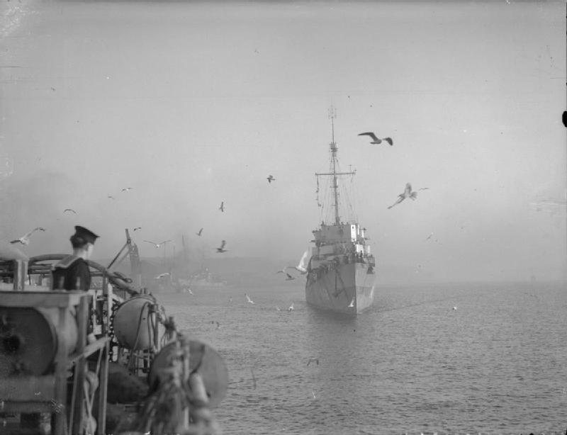 IWM caption : Captain Class frigate HMS BRAITHWAITE coming in to Londonderry, Northern Ireland, from a successful hunt during which time the 10th Escort Group accounted for two probable U Boat sinkings and one possible.